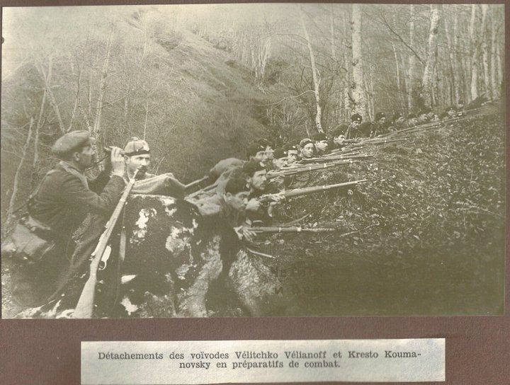 IMARO Cheta ot Skopie region - voivoda Krastyo Kratovski and Velichko Velyanov